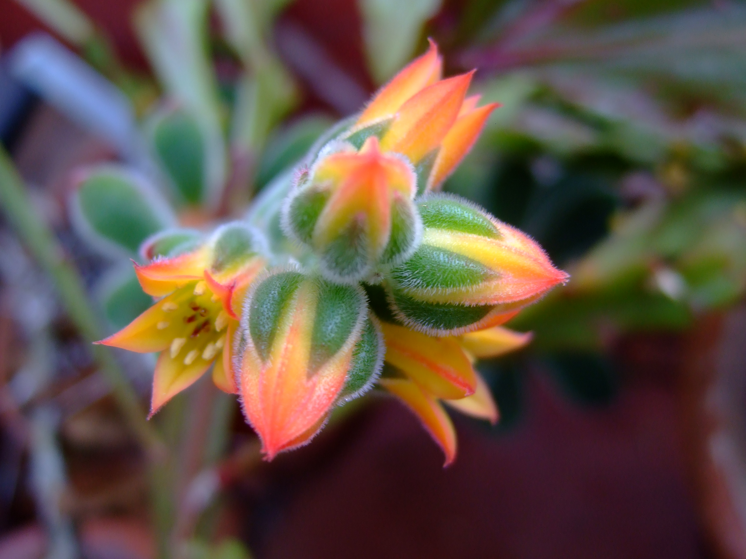 Buds and blossoms on Echeveria pulvinata in the greenhouse of Smith College's botanical garden. The buds are about 1 cm long.